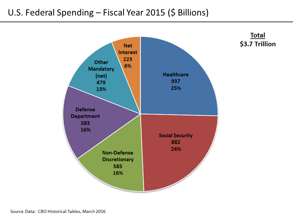 Pie chart of U.S. Federal spending in FY 2015, from CBO data